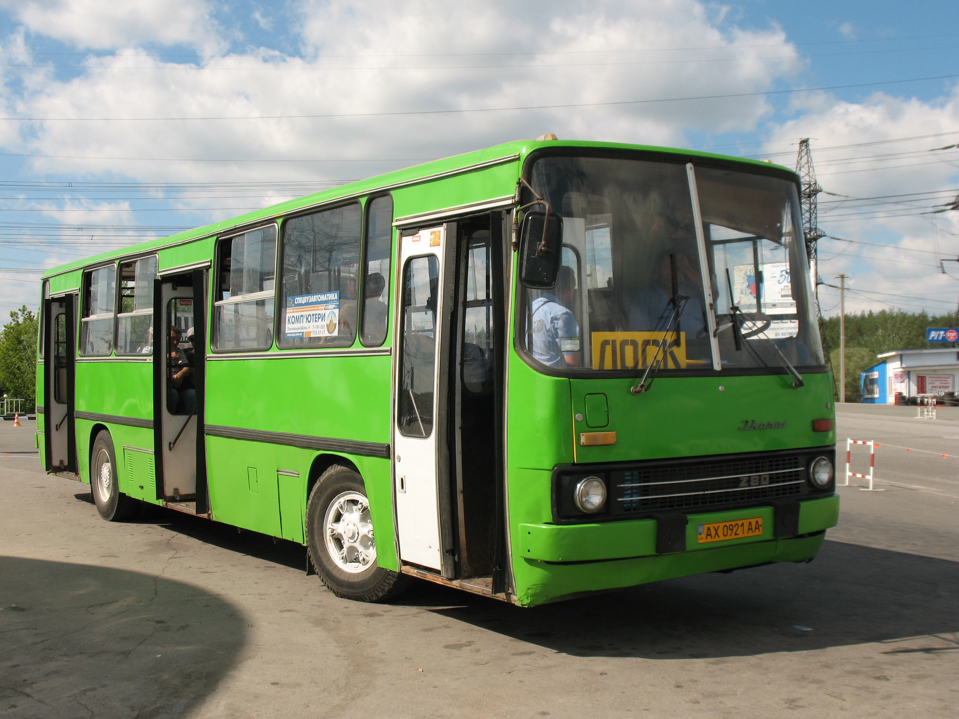 Kharkov City. Kharkov-Losk bus Ikarus 263.